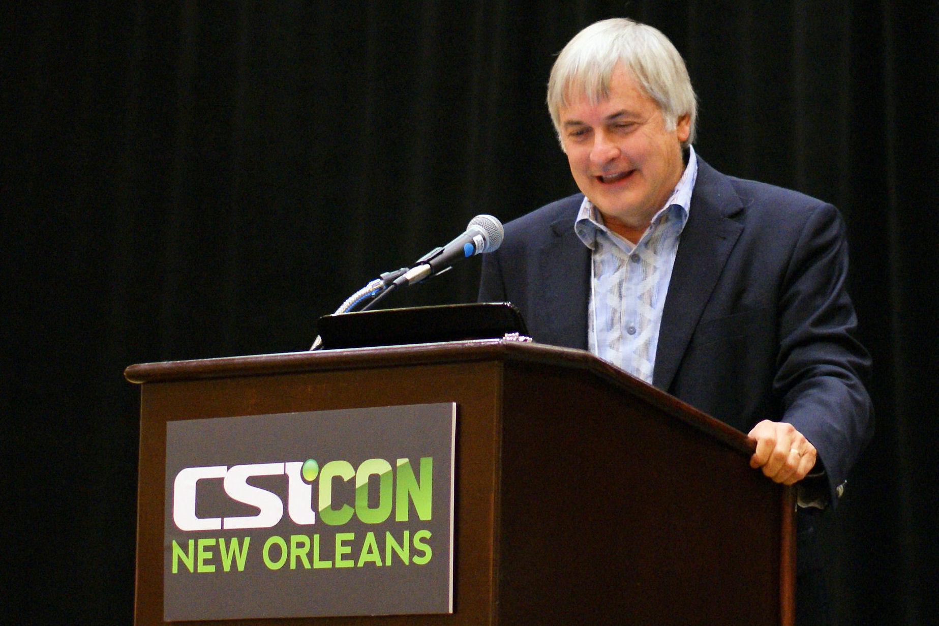 Seth Shostak participating in "Death From the Skies" panel at CSICON 2011 in New Orleans, LA, USA.